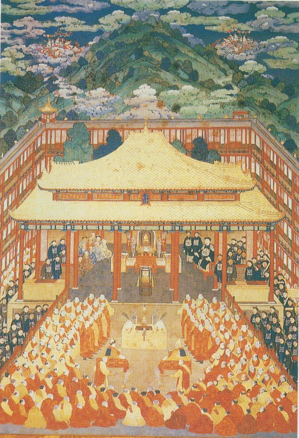 3rd Jebtsundamba Khutughtu preaching in Jehol